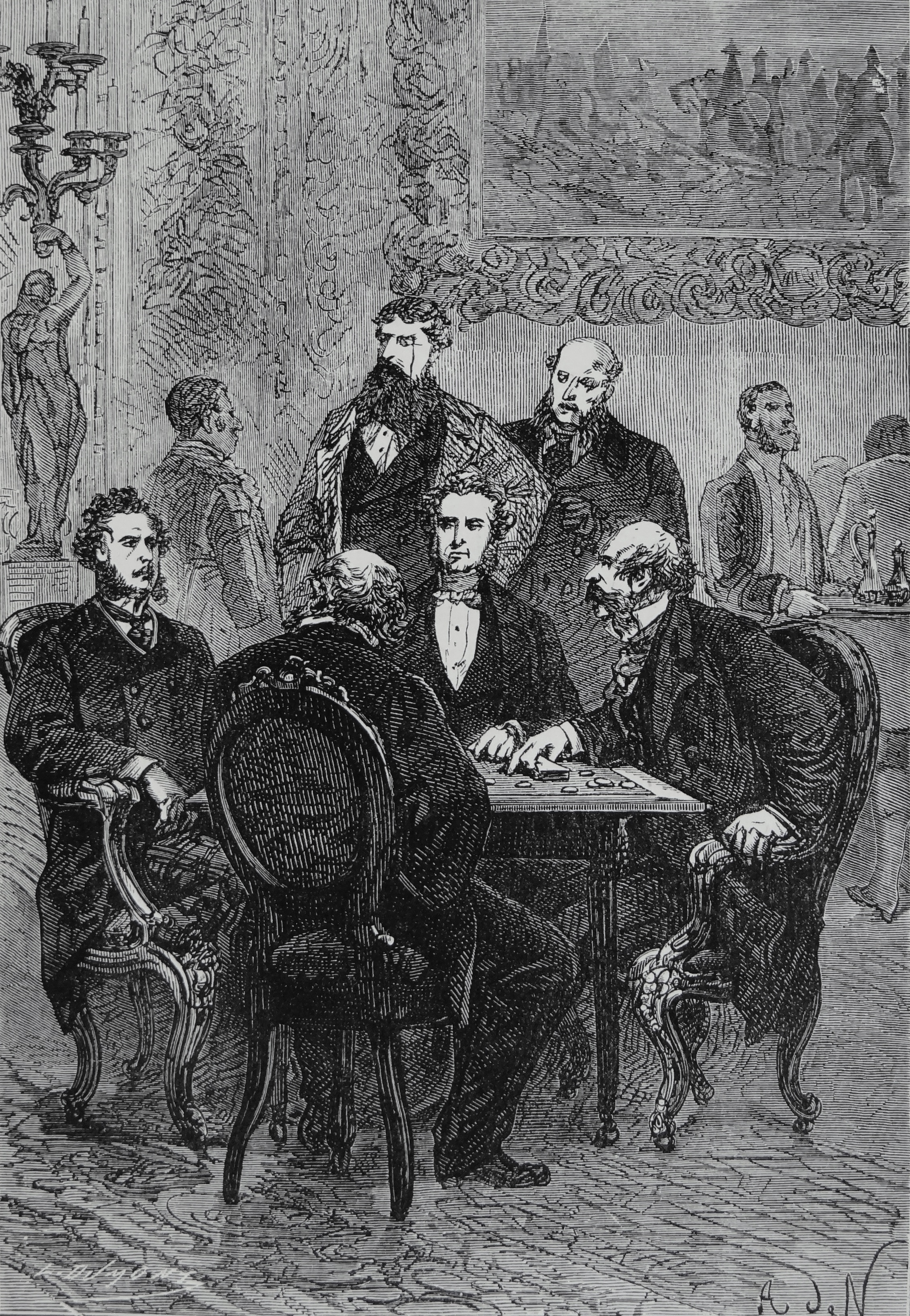 “…I will wager £4000 on it !!” Phileas Fogg's bet, an ilustration from the novel "Around the World in Eighty Days" by Jules Verne painted by Alphonse de Neuville and/or Léon Benett.